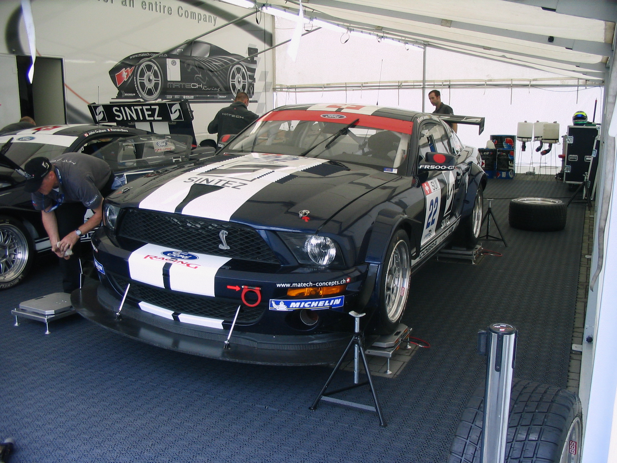 Ford Mustang FR500GT driven by Eric de Doncker and Gunnar Jeannette at the FIA GT3 European Championship 2008 in Oschersleben. The car stand in a tent in the paddock together with the sister car.